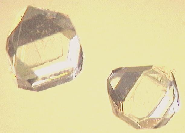 Xylitol crystals, sometimes used in chewing gum. Photo taken using a microscope.